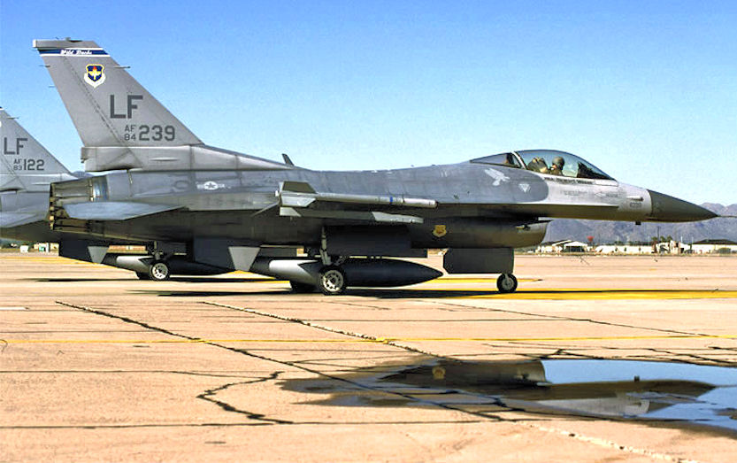 309th Fighter Squadron - General Dynamics F-16C Block 25C Fighting Falcon 84-1239